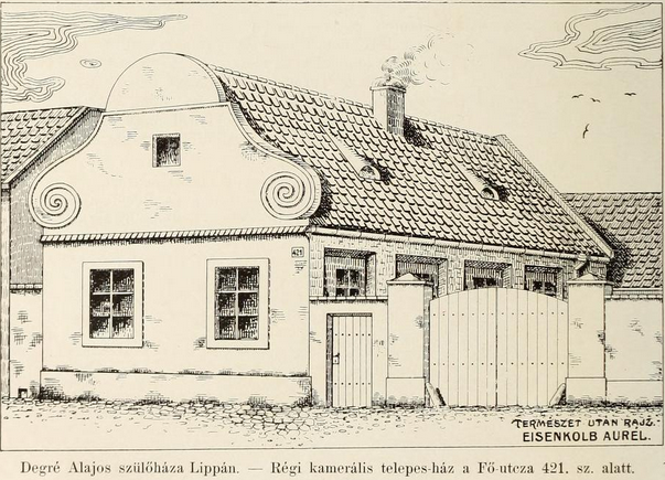 Lippa, the house where Degré Alajos was born